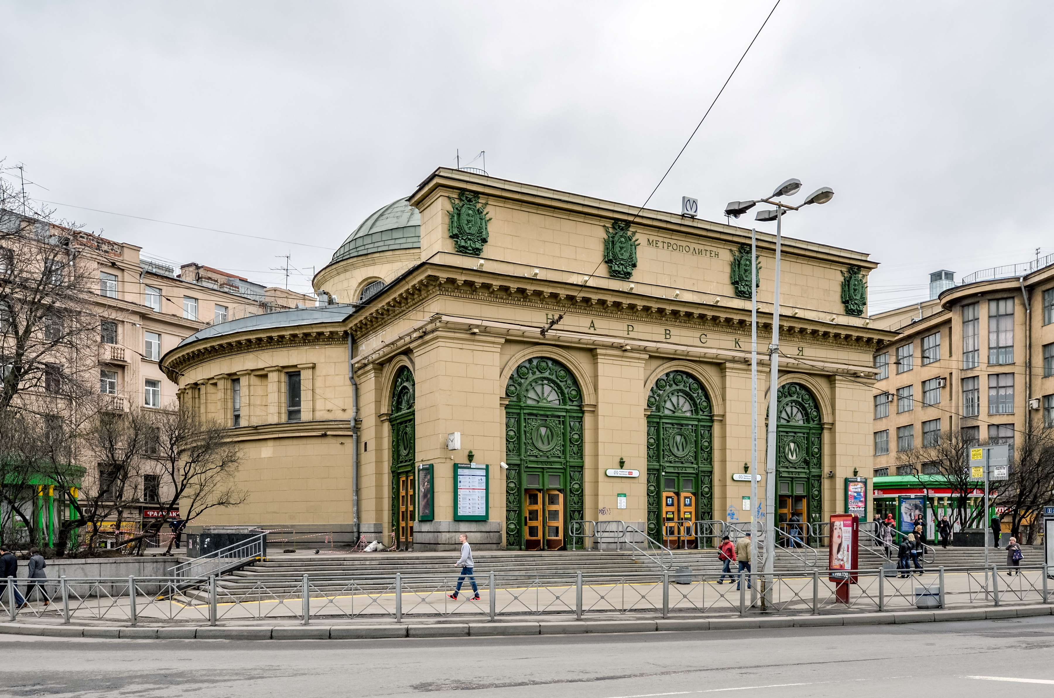 Narvskaya station of Saint Petersburg Metro, pavilion